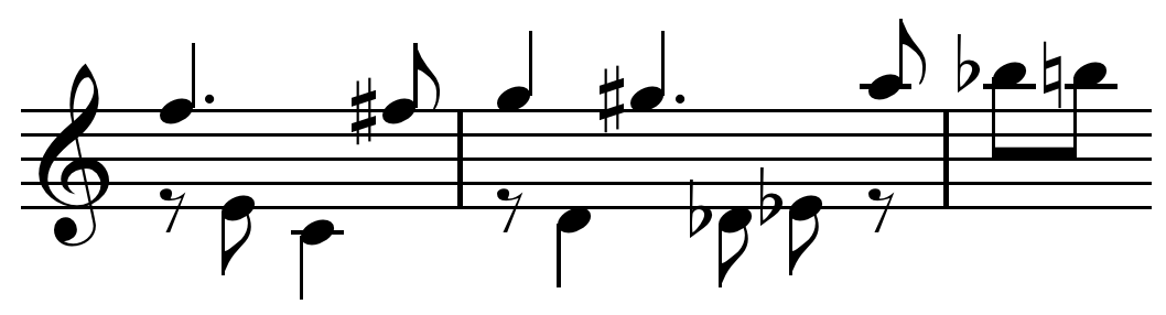 Alban Berg's "constructive rhythm" in his Lyric Suite, according to Wolfgang Stroh. Top line, viola, bottom line violin I.